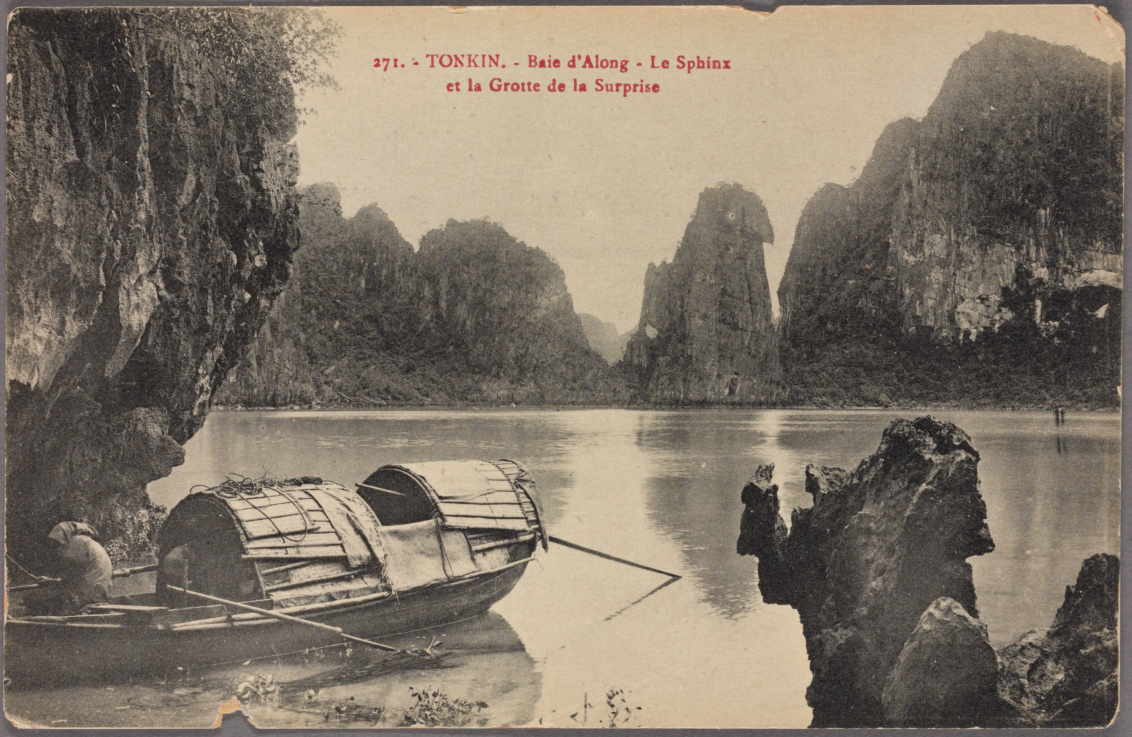 Ha Long Bay has been designated a UNESCO World Heritage Site. While mythology tells how dragons saved the Vietnamese from a fleet of invaders by dropping pearls which turned into a chain of inshore islands, the islands' actual story is hinted at by the remains of several prehistoric cultures found in the region. Sphinx Rock is another name for Dai Nguoi ("Human Head") Island, while Sung Sot ("Surprise Grotto") is the name given to the spectacular complex of caves found under the island of Bo Hon.